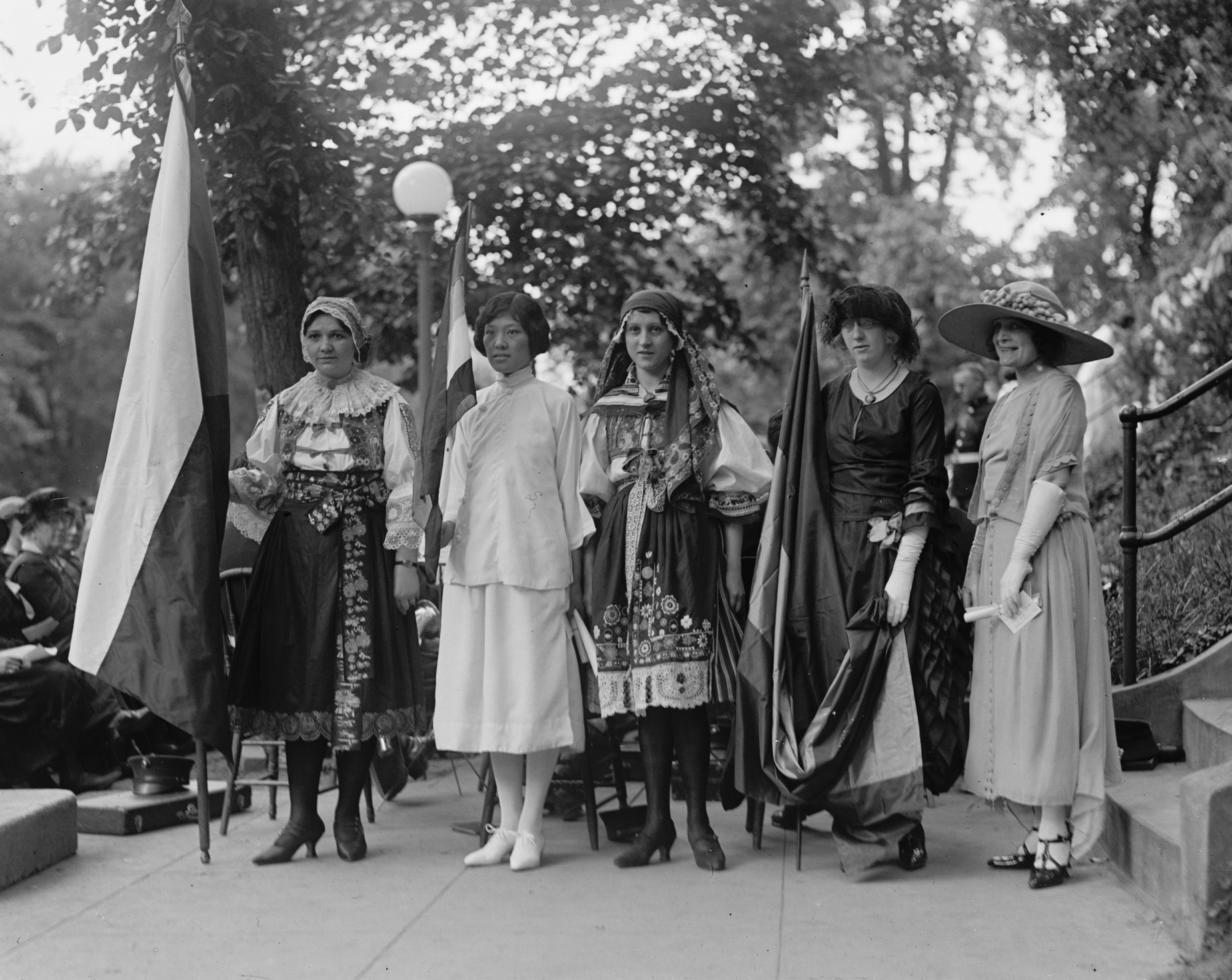 Dedication, Nat. Woman's Party, 5/21/22